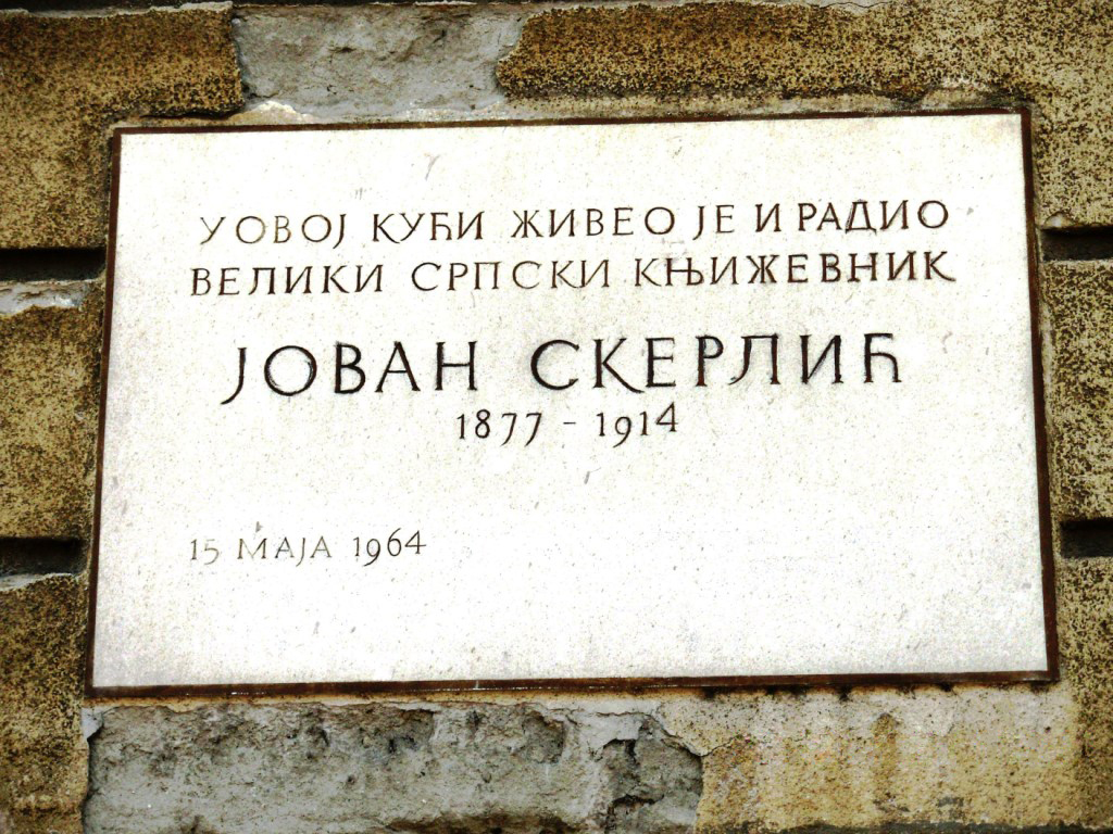 Memorial tablet on the house where Jovan Skelić lived, in the Gospodar Jovanova street, Belgrade, Serbia. "In this building lived and worked great Serbian literate Jovan Skerlić 1877-1914